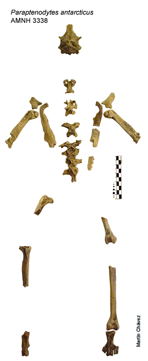 Cast of the specimen AMNH3338 of Paraptenodytes antarcticus, of the Museo Paleontologico Egidio Feruglio in Trelew, Argentina.